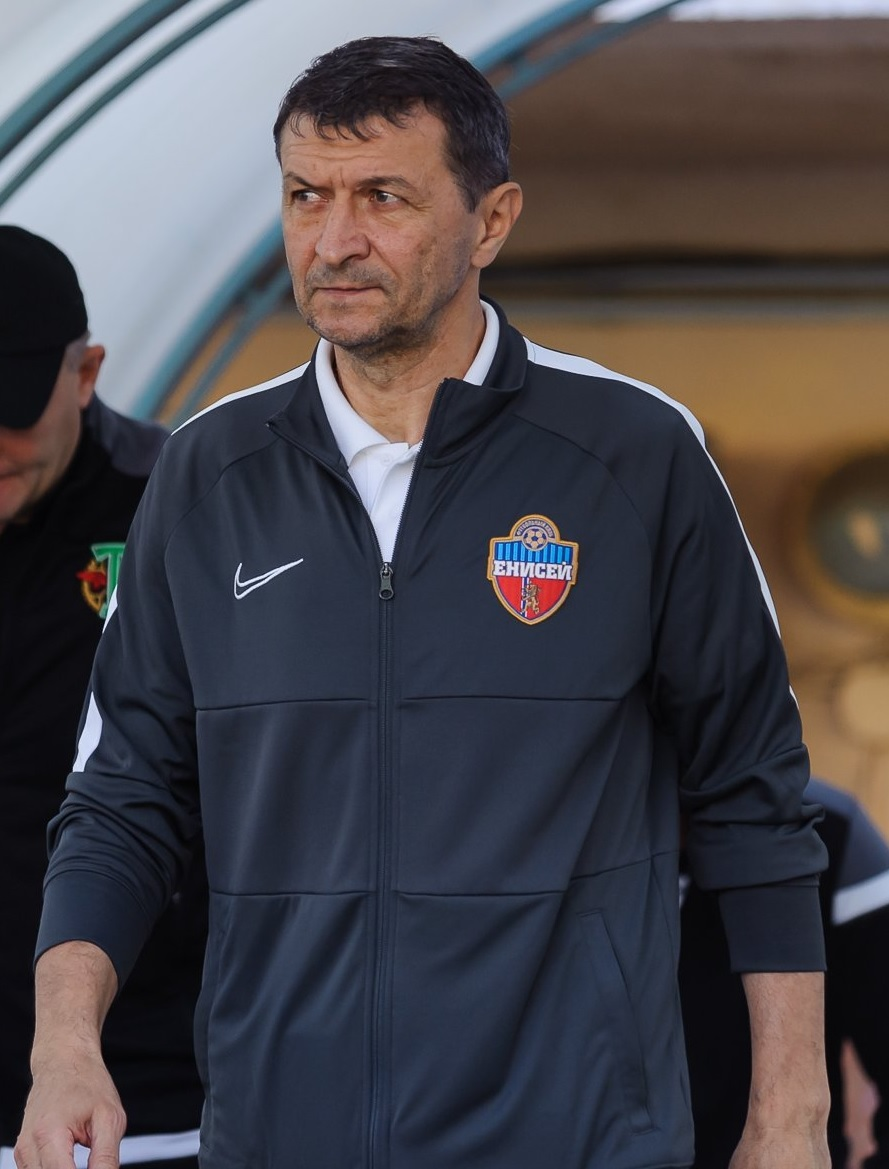 Yuri Gazzaev as a manager of FC Yenisey Krasnoyarsk before the game against FC Torpedo Moscow.